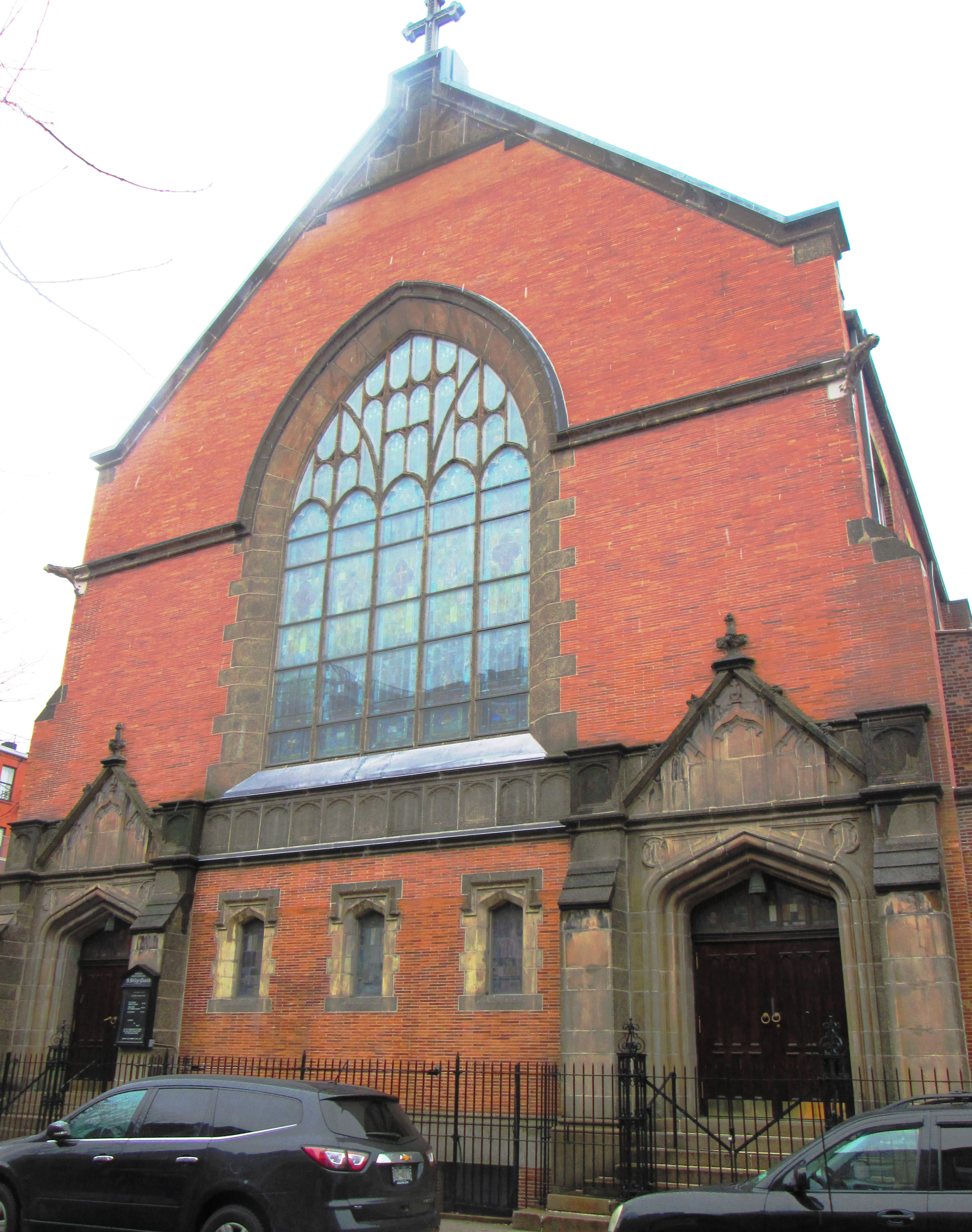 St. Philip's Episcopal Church (Manhattan) is a historic Episcopal church located at 204 West 134th Street, just west of Adam Clayton Powell Jr. Boulevard (Seventh Avenue)) in the Harlem neighborhood of Manhattan, New York City. Its congregation was founded in 1809 by free Africans worshiping at Trinity Church, Wall Street as the Free African Church of St. Philip. The present twentieth-century church building was designed by architects Vertner Woodson Tandy (1885–1949) and George Washington Foster (1866–1923) of the firm Tandy & Foster. Both were prominent African-American architects: It was built in 1910-1911 in the Neo-Gothic style. The church was added to the National Register of Historic Places in 2008.